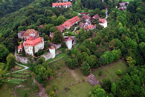 Castle Schloss Stetten, 900 years old